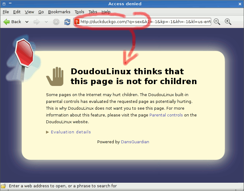 Dansguardian can reject search engine queries